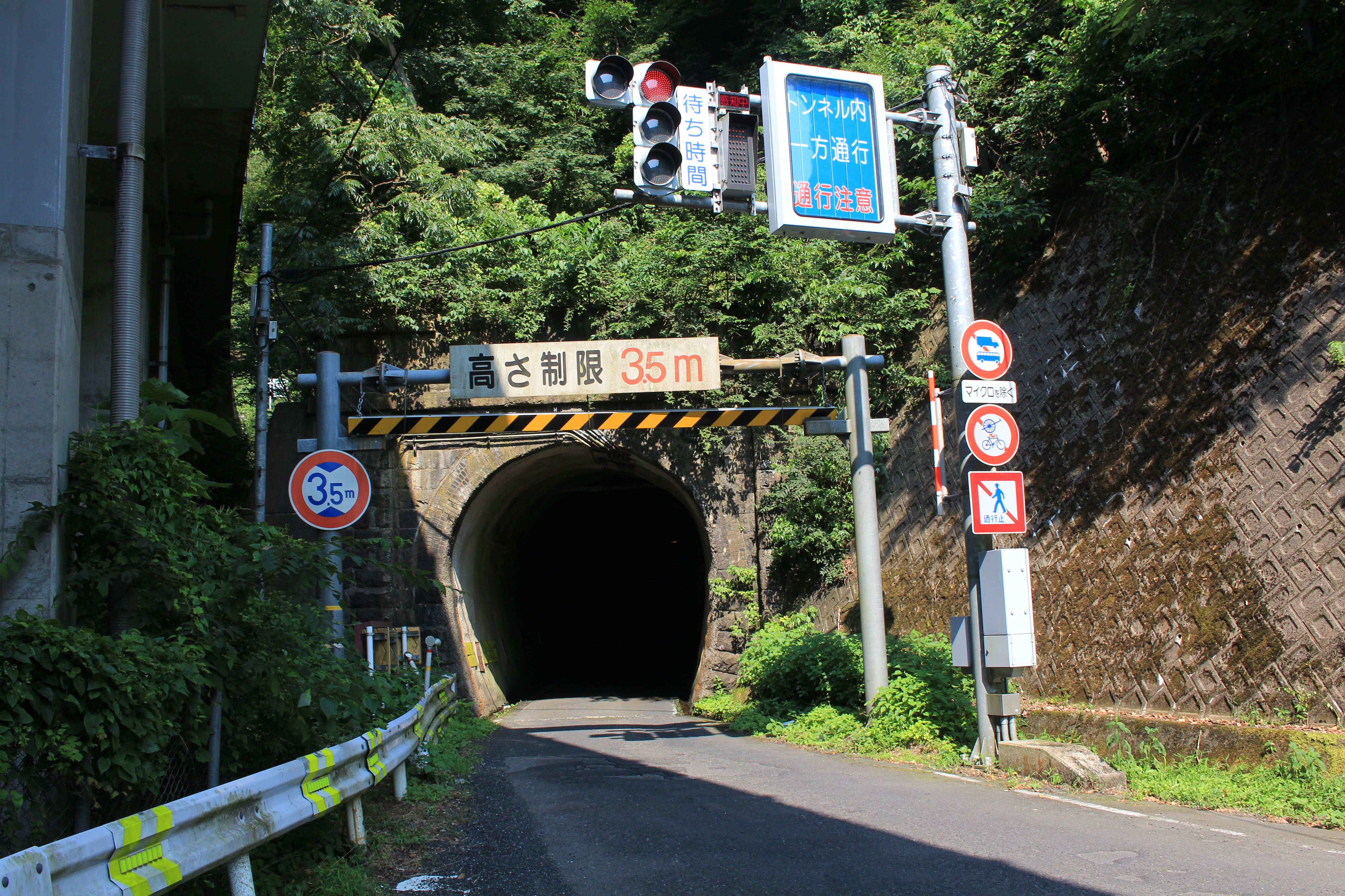 Yanagase Suido (Yanagase Tunnel) of Fukui Prefectural Road and Shiga Prefectural Road Route 140 in Tsuruga, Fukui Prefecture, Japan.